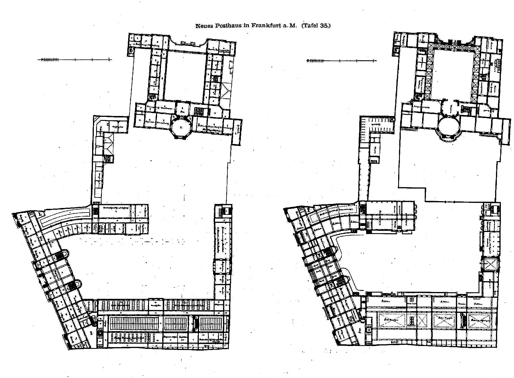 Neues_Posthaus_in_Frankfurt,_Tafel_35,_Kick_Jahrgang_II.jpg